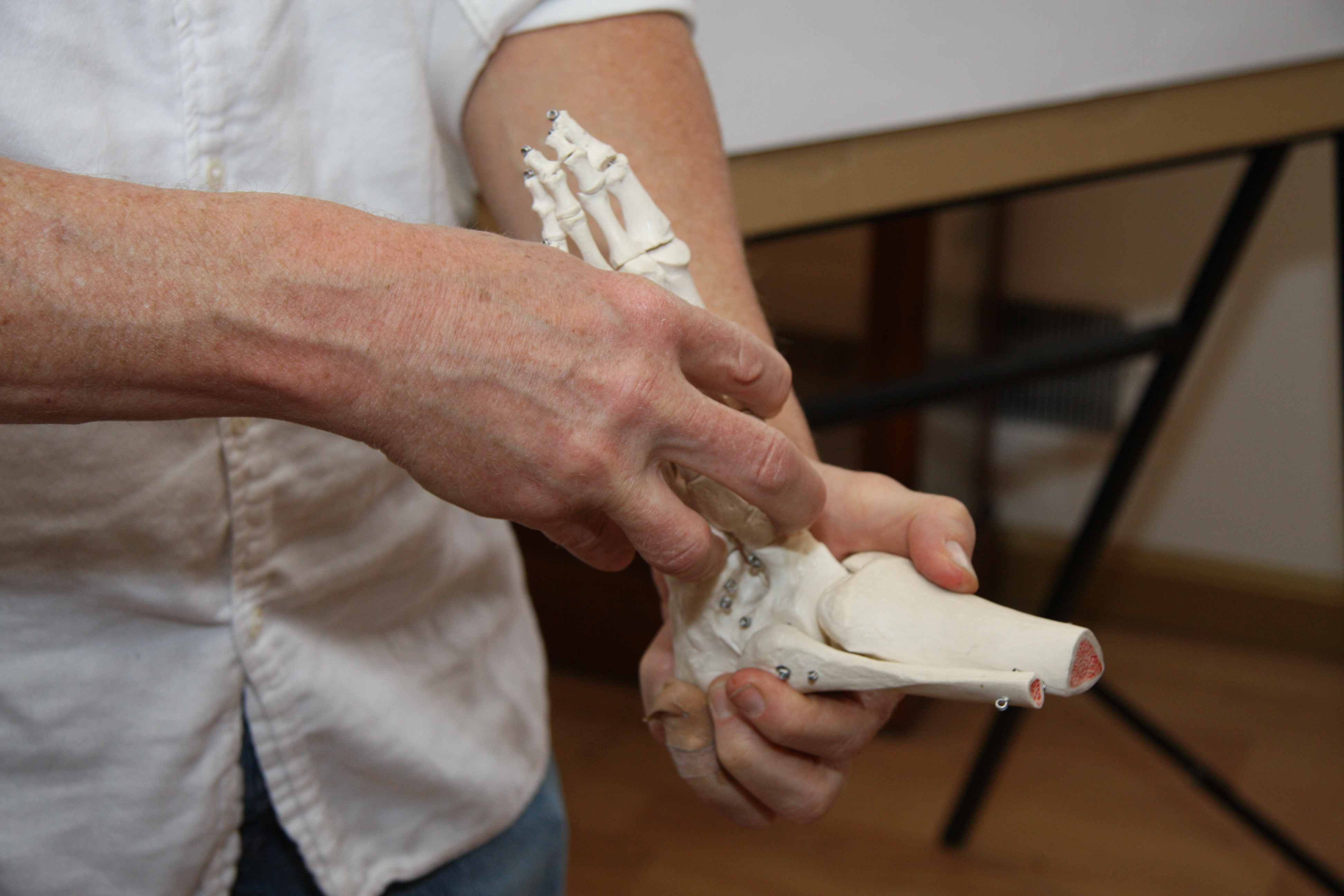 Tutorial image used to show common element with Zero Balancing's work on the bones of the feet. Taken in a Zero Balancing class taught by Frederick Fritz Smith in Ellicott City, MD.